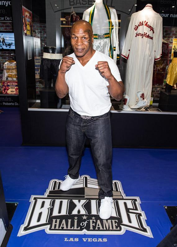 Mike Tyson posing at the Boxing Hall of Fame, Luxor Hotel, Las Vegas, Nevada